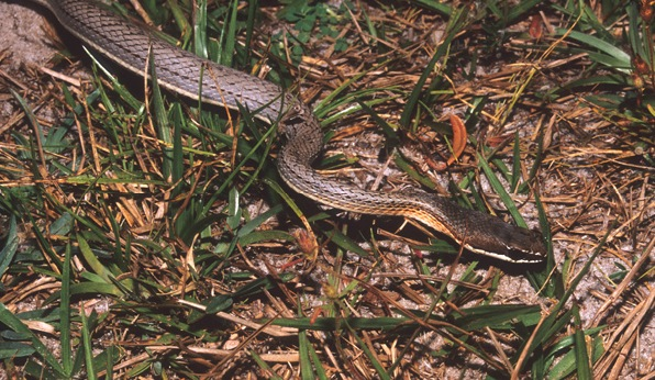 Philodryas nattereri in Lençóis Maranhenses National Park, Maranhão State, Northeastern Brazil. Photo by J. P. Miranda.